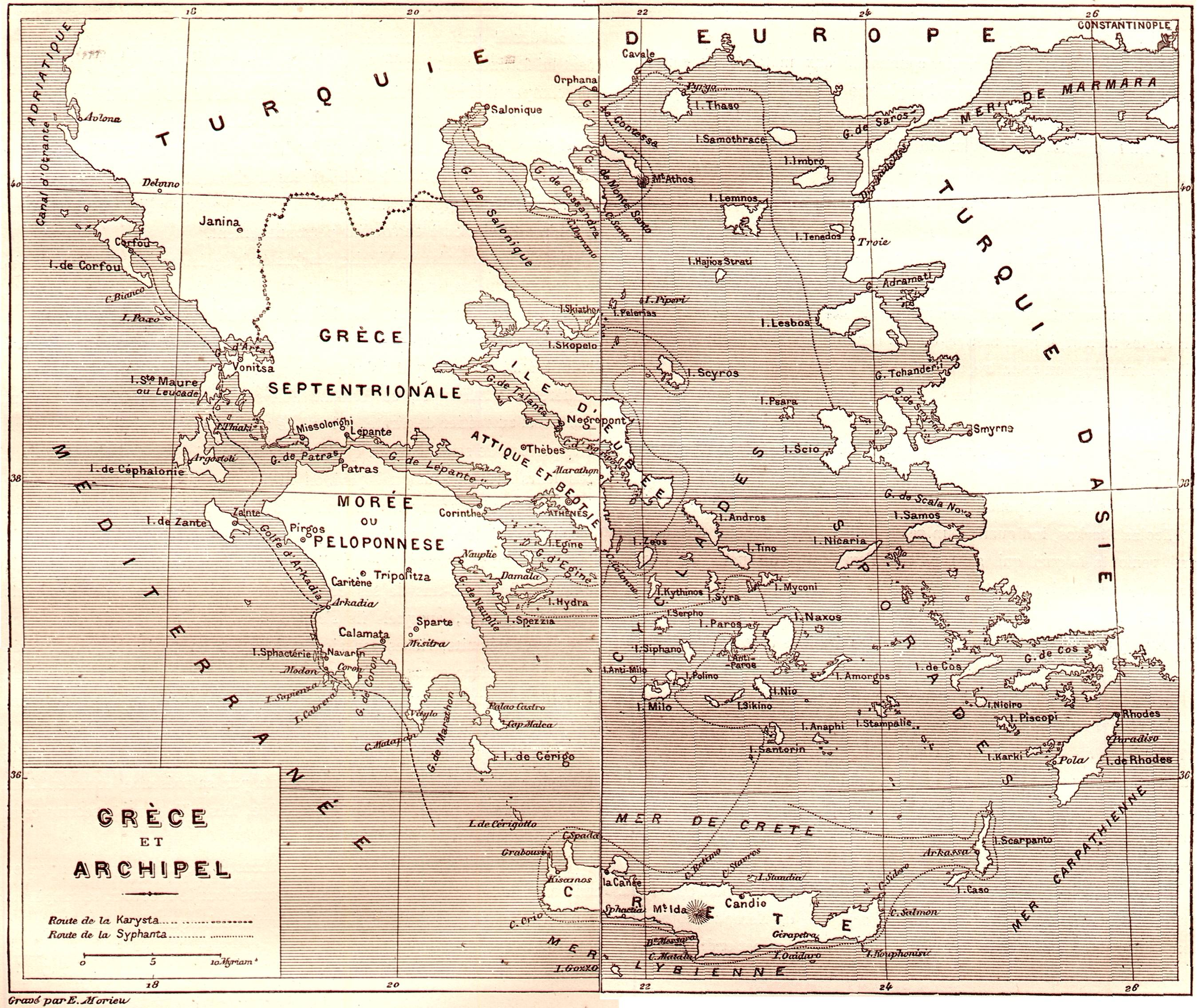 Map by Léon Bennett for Jules Verne's French novel.